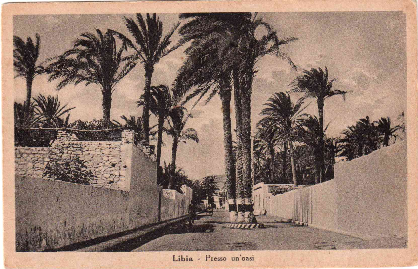 Historic postcard of a Libyan oasis town, in 1935 during the colonial Italian occupation era.